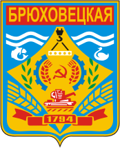 Bryukhovetskaya (Krasnodar krai), coat of arms (1987)